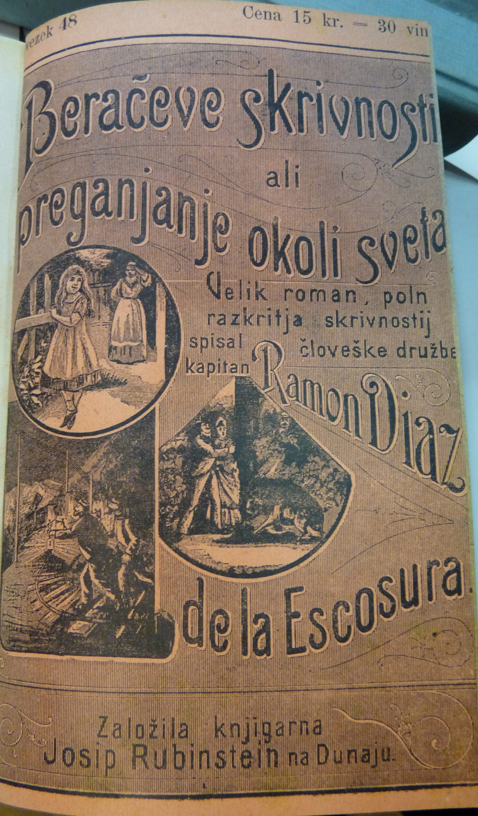 Naslovnica enega od zvezkov kolportažnega romana Karla Maya Beračeve skrivnosti, 1901